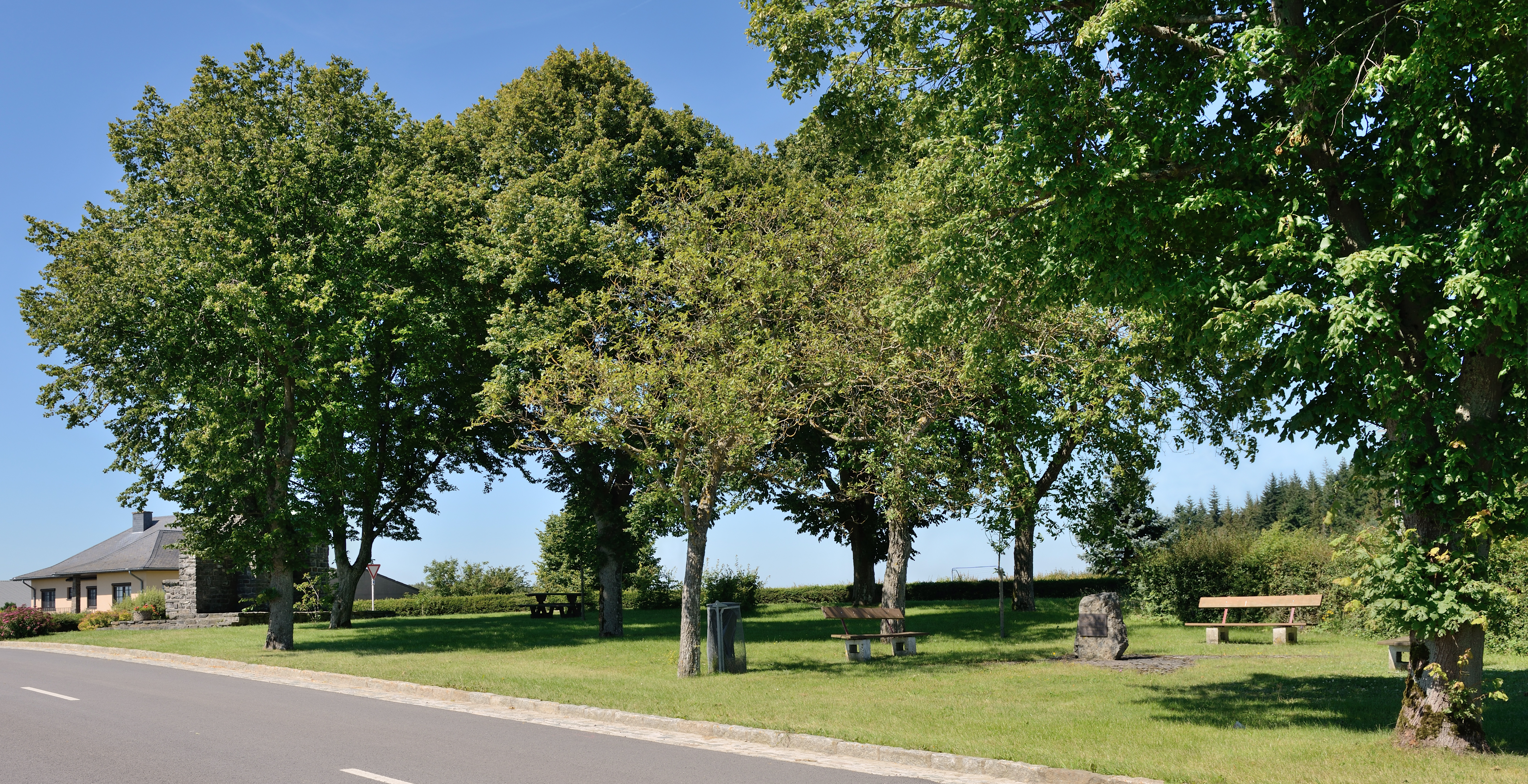 Luxembourg, commune of Kiischpelt: site of the Independence monument of 1989 between Merkholtz and Alscheid.